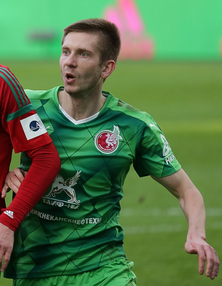 Vitali Ustinov with FC Rubin Kazan in a game against FC Lokomotiv Moscow on 3 April 2016.